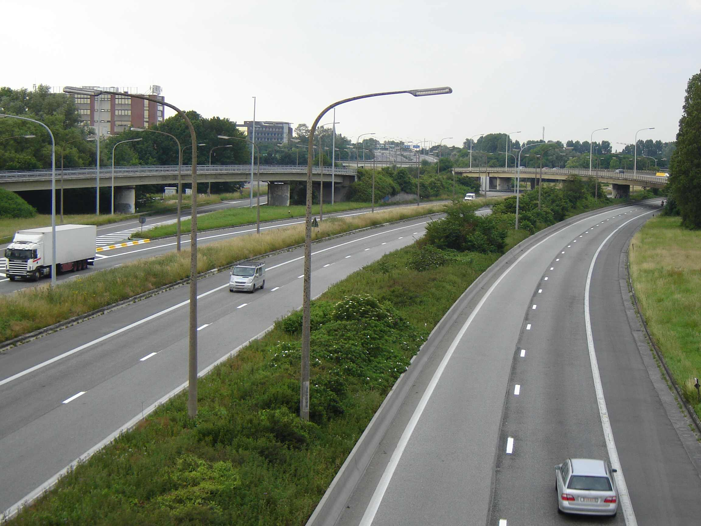 Interchange Gent-Centrum in Gent, Belgium. The road central in the picture is the A14/E17. The bridge with traffic in the right half of the picture, over this A14 is the B401 that has just split of, and continues towards the city centre of Gent (the bridge seen in the distance, central in the picture). Image taken from the bridge with the Corneel Heymanslaan.